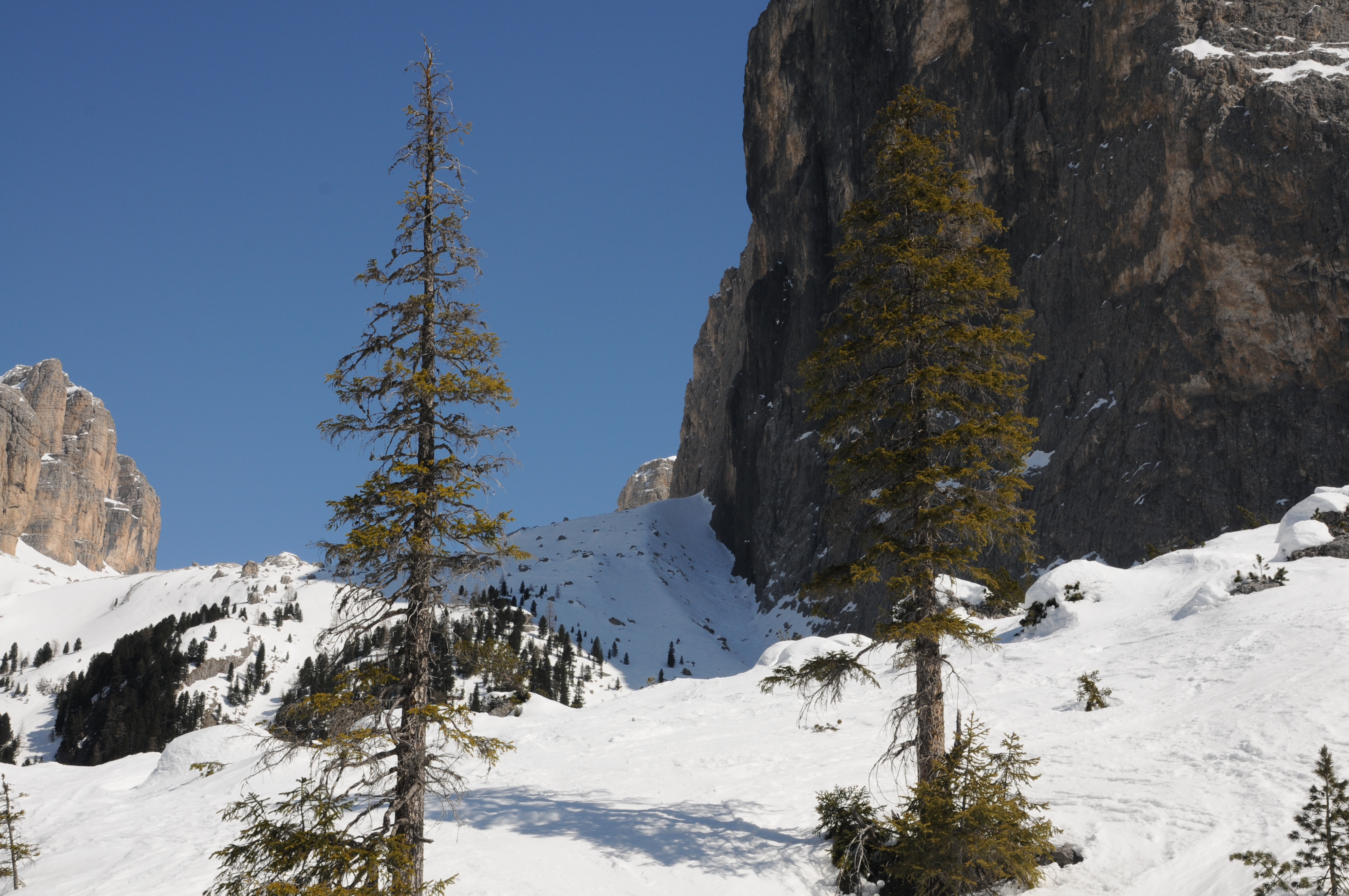 Exit channel, on the left along the rock, from the Val Lasties in the Sella Group, South Tyrol. Picture taken from Plan Frataces. This is the base of Sass Pordoi. This picture was taken 5 days before Shane McConkey died falling after base jumping off this rock